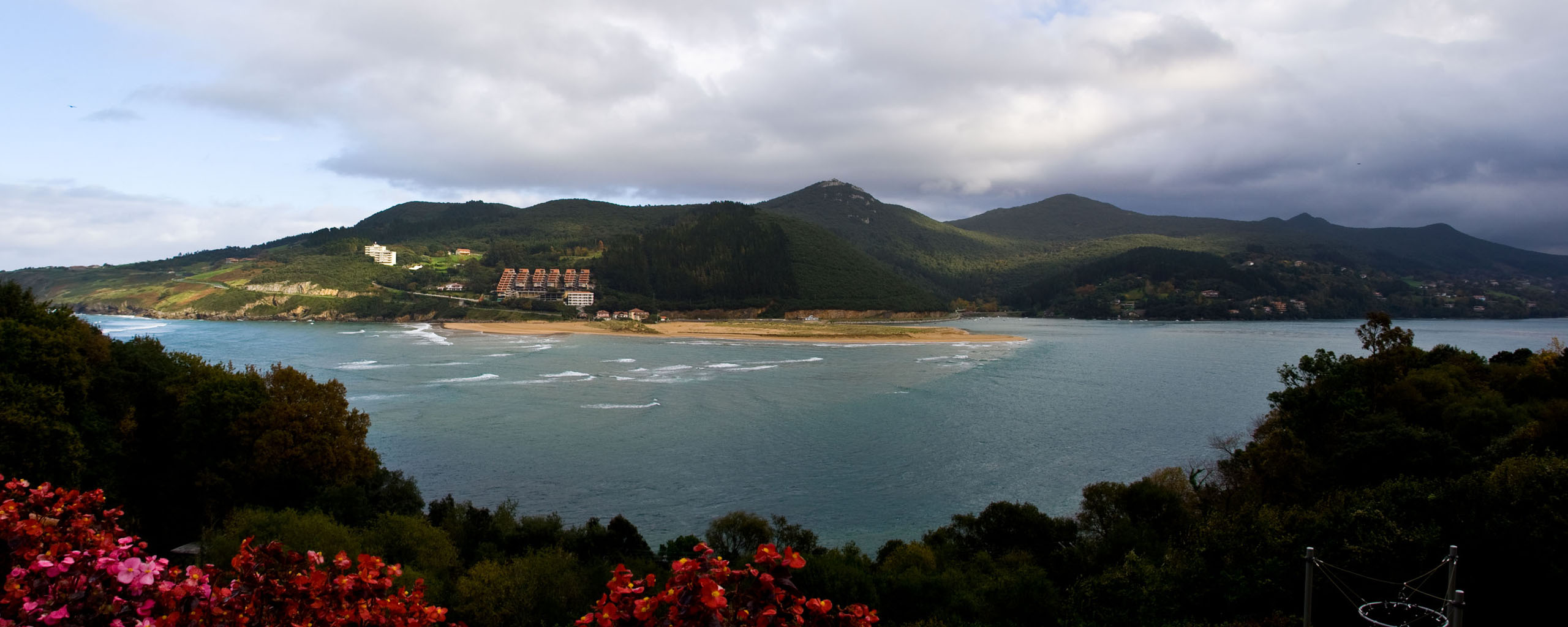 Coast near Mundaka, Bizkaia